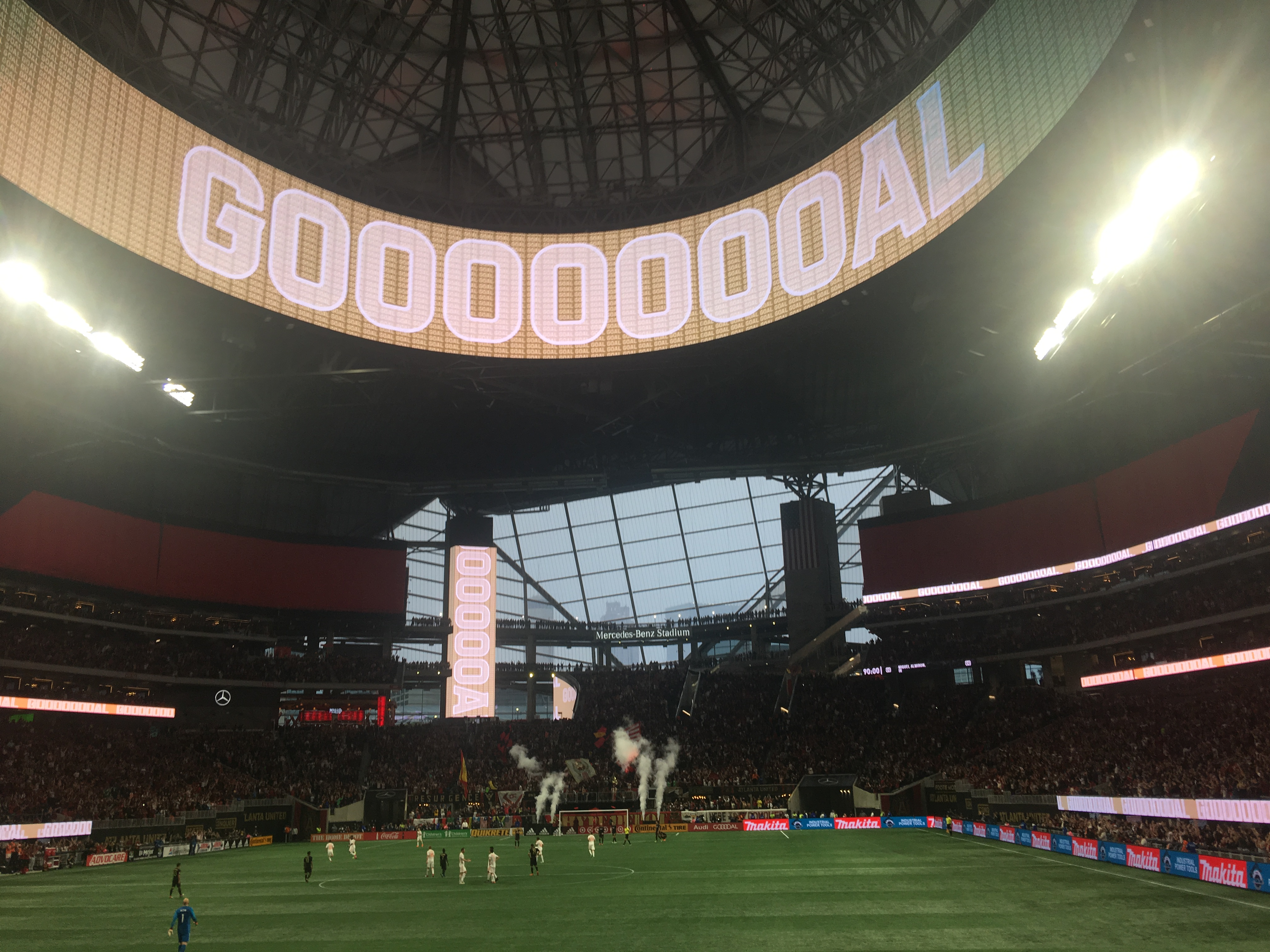 2018-04-07 - Atlanta United vs LAFC